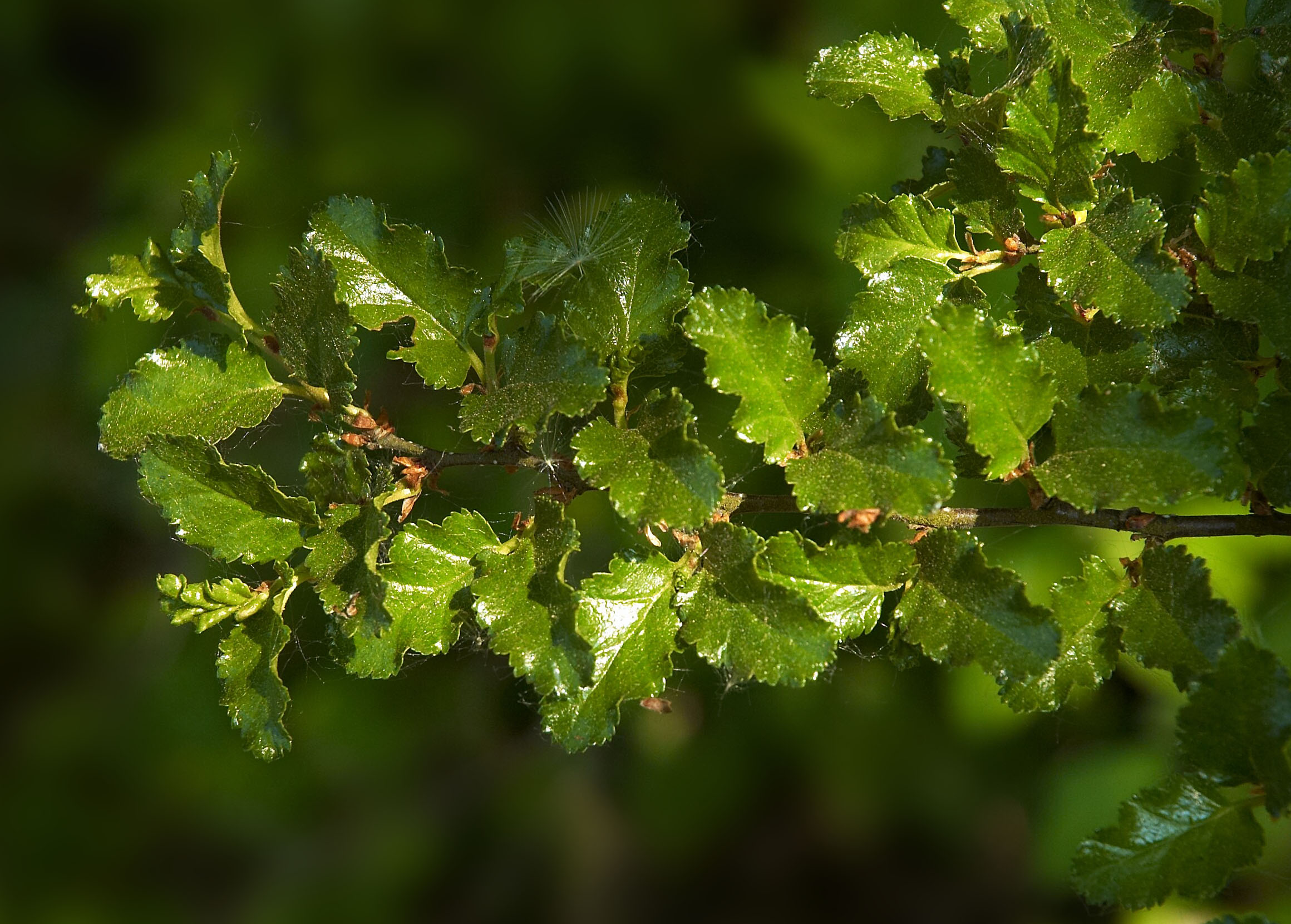 Antarctic Beech